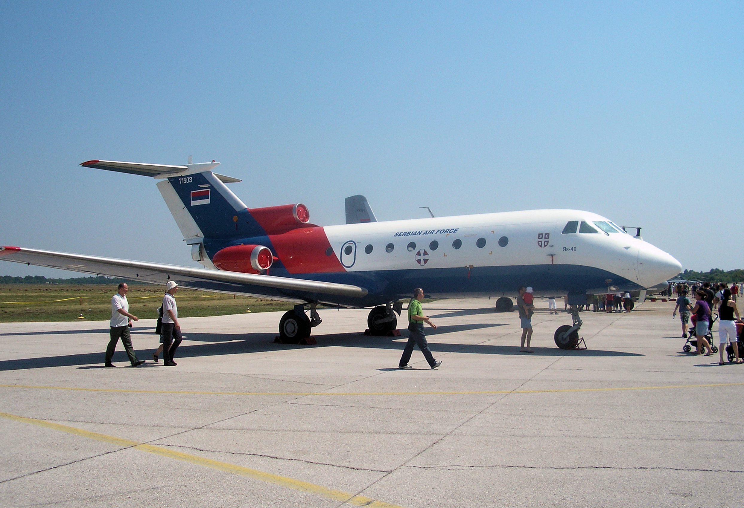 Overhauled Yak-40 No.71503 of 138. Mixed-Transport-Aviation Squadron, 204th Air Base of Serbian Air Force, on display at Batajnica airbase during the Saint Elijah, the Aviation Day in Serbia. The aircraft is painted in colors of Serbian flag.